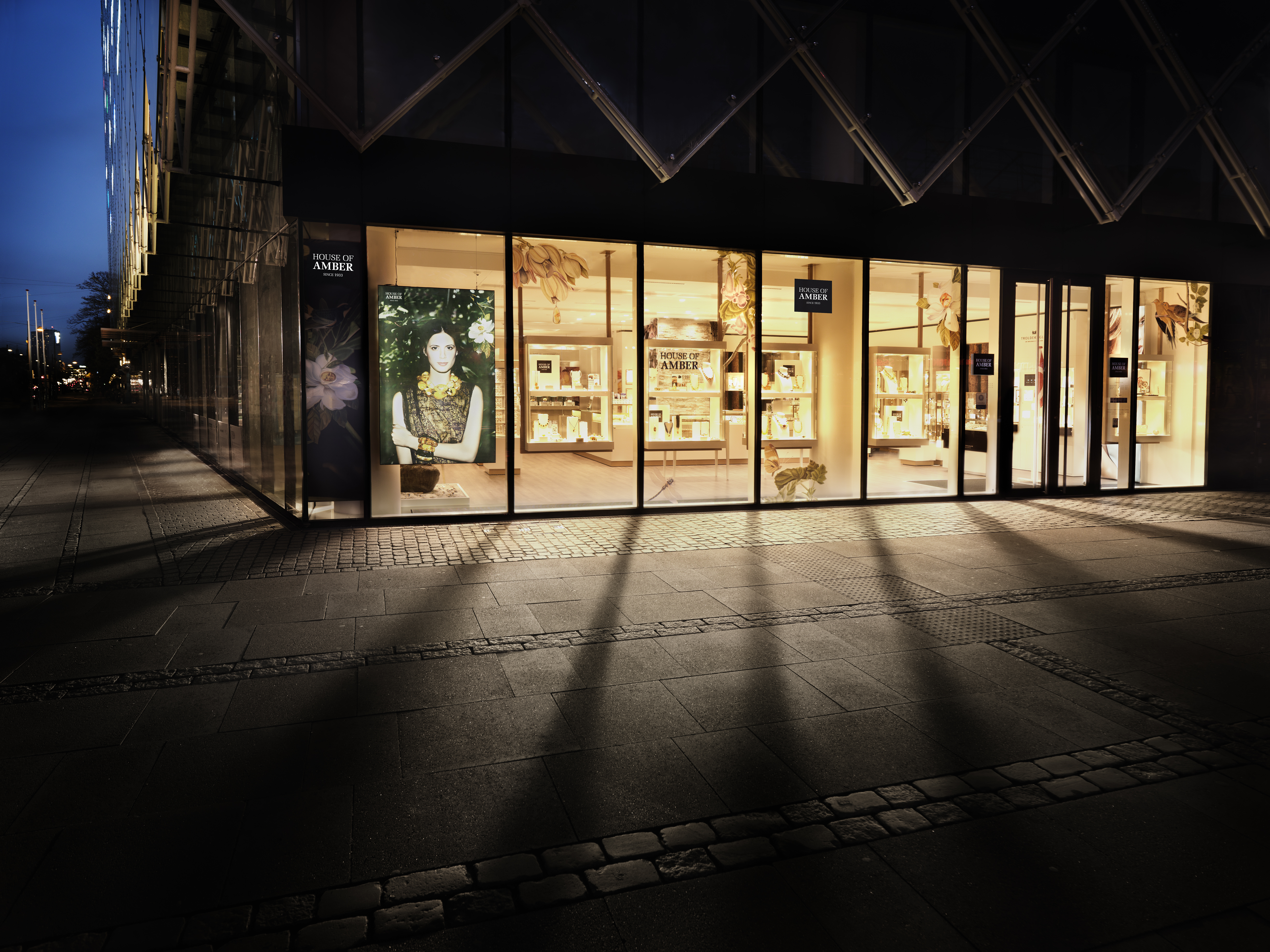 The store is located in the heart of Copenhagen in the House of Industry, in the bustling area near the City Hall Square and Tivoli. With its bright and warm interior as well as a lounge area the store invites you to explore the beautiful amber jewellery.